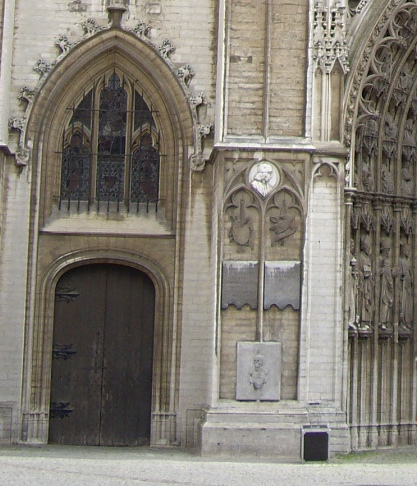 Detail of Antwerp Cathedral door with the skull plaque in memory of Quentin Metsys